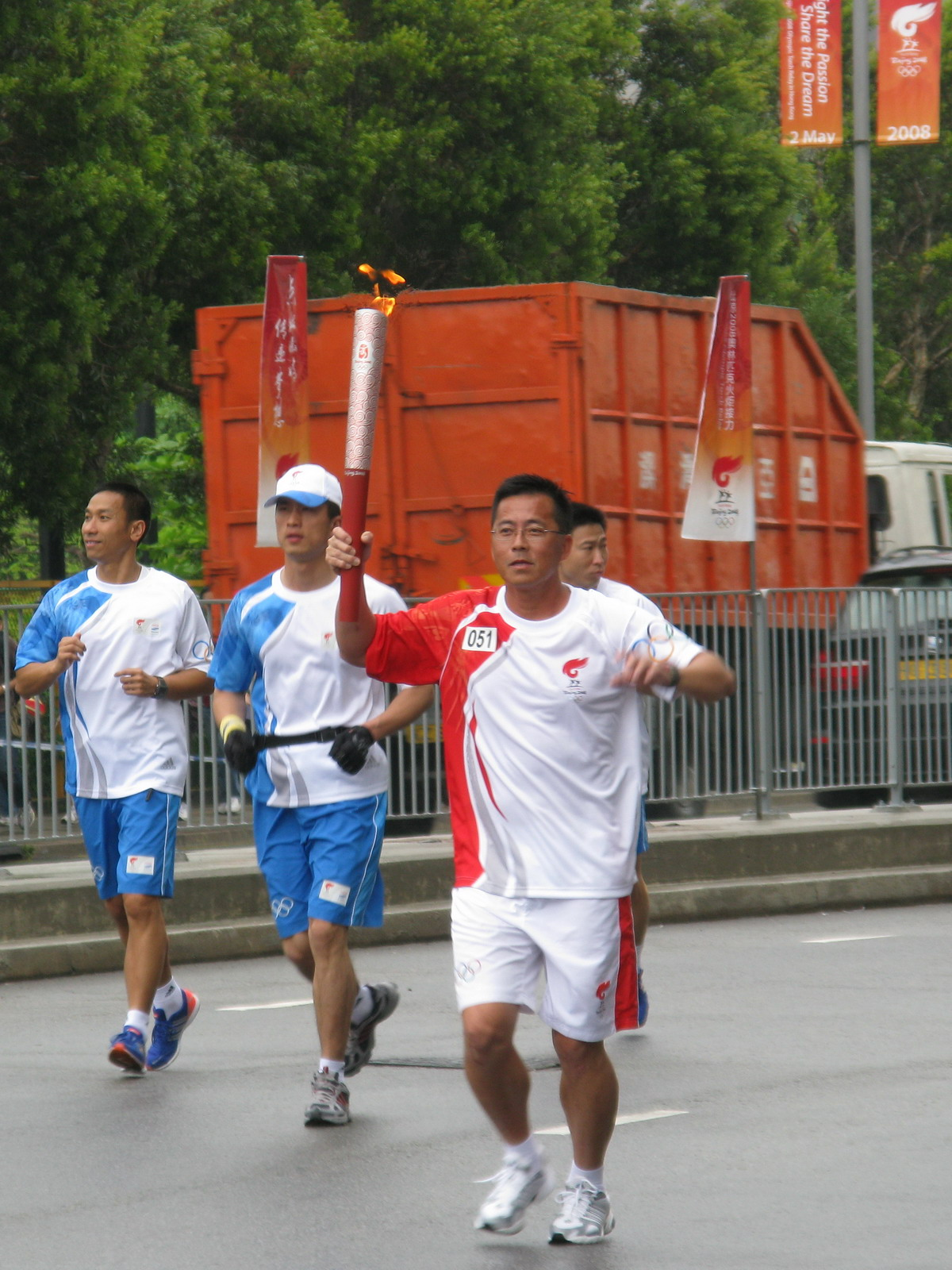 MA Koon Sang, Torchbearer No.51, Olympic Torch Relay in Hong Kong